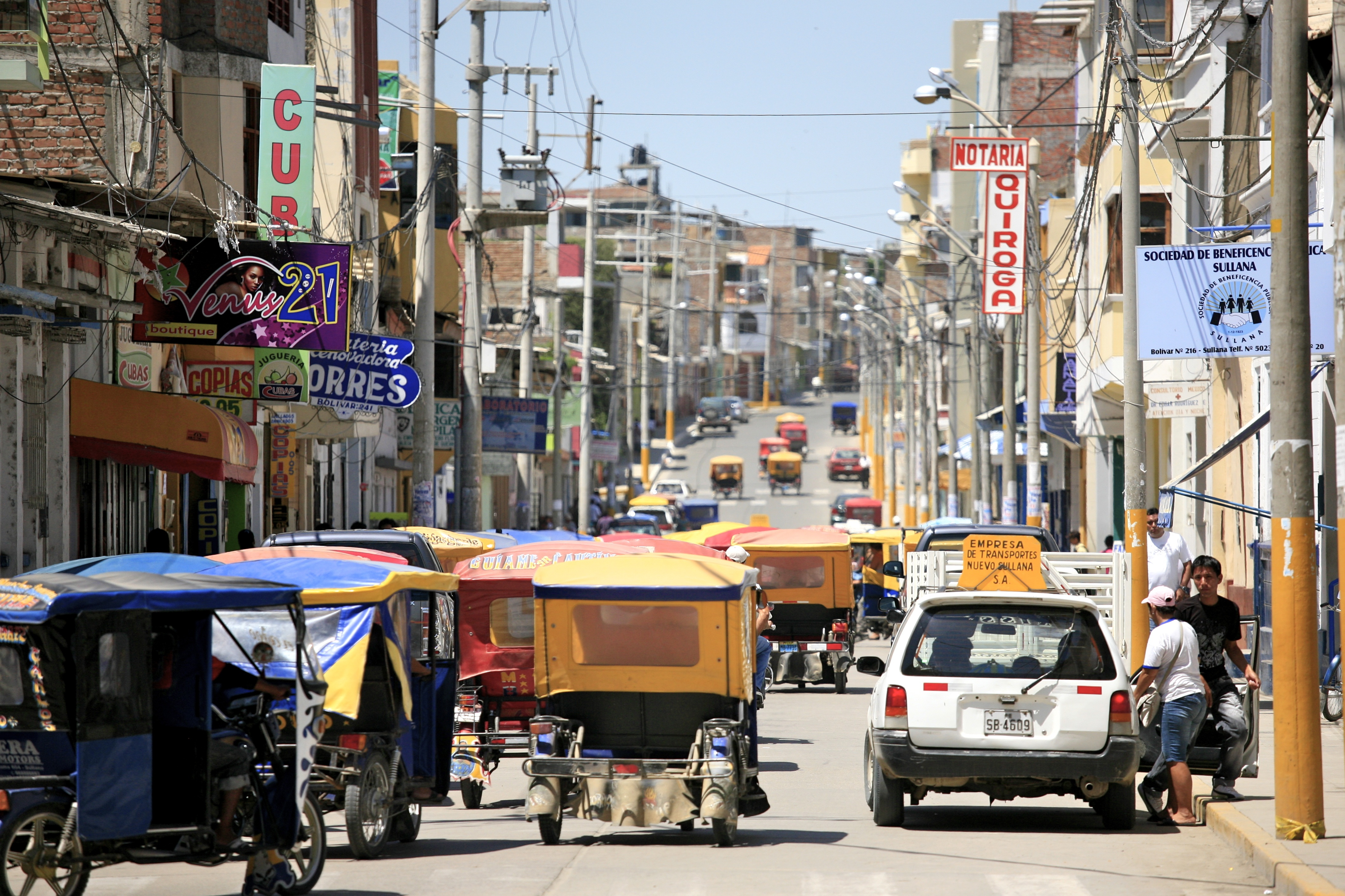 Town of Sullana